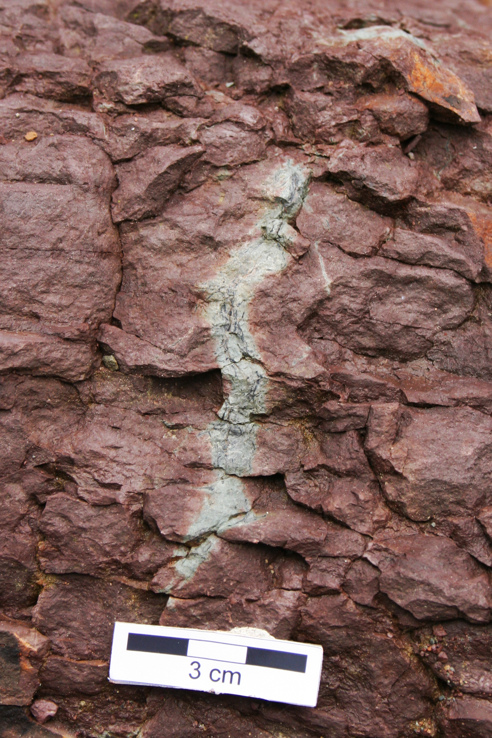 Red mudrock with drab-halo around carbonized root, Pennsylvanian Ragged Reef Formation, Cumberland Basin, Nova Scotia.